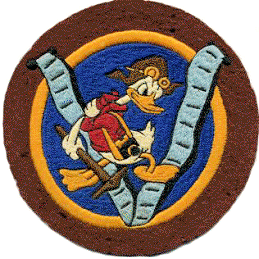 Emblem of the 5th Reconnaissance Squadron (World War II)